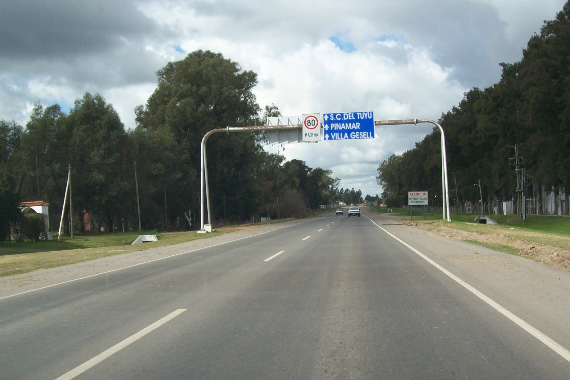 Provincial Route 36 near Provincial Route 2 (Autovia 2) in El Pato town, Berazategui Partido, Buenos Aires Province, Argentina.